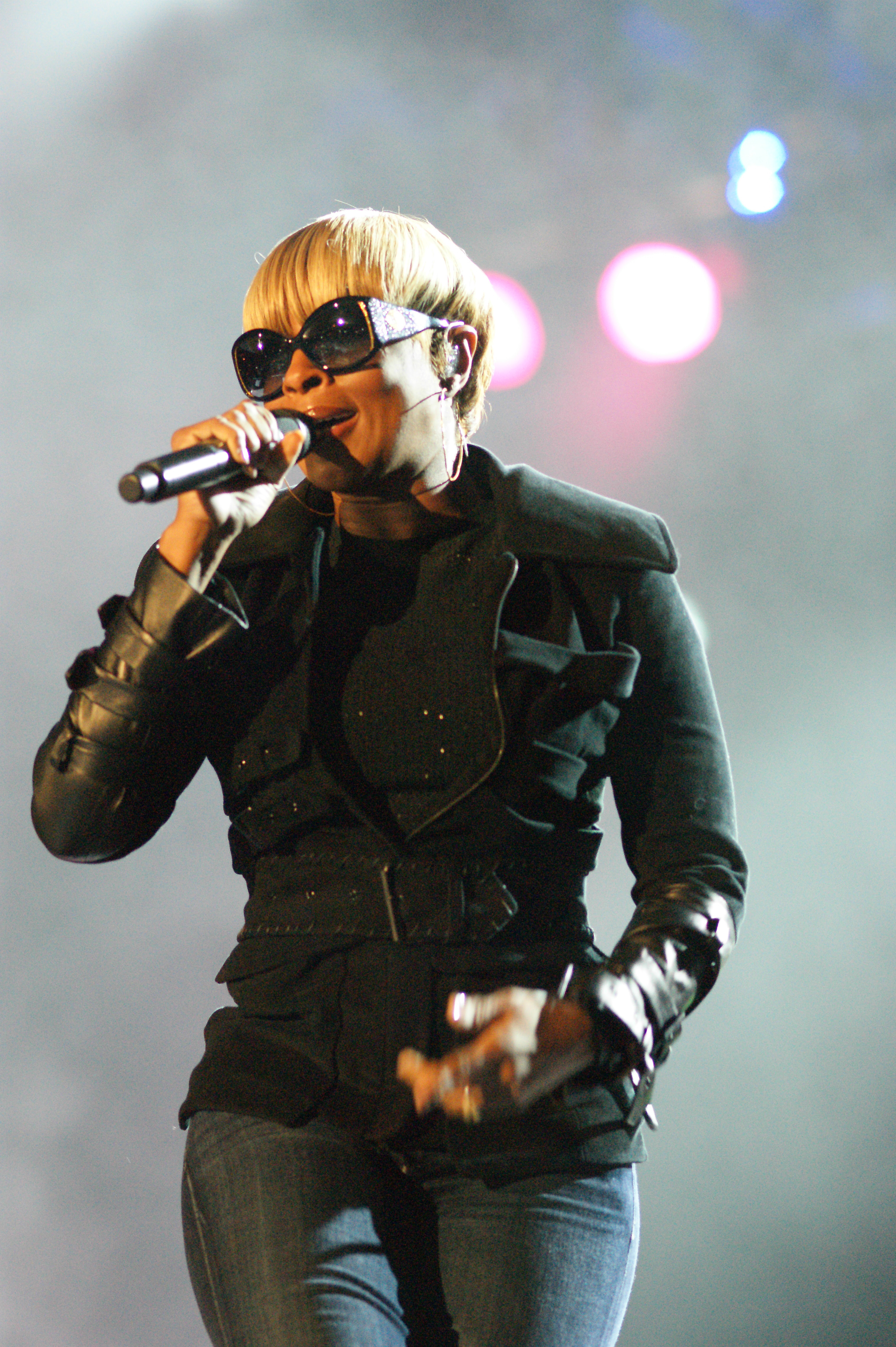 Mary J. Blige, Bumbershoot 2010